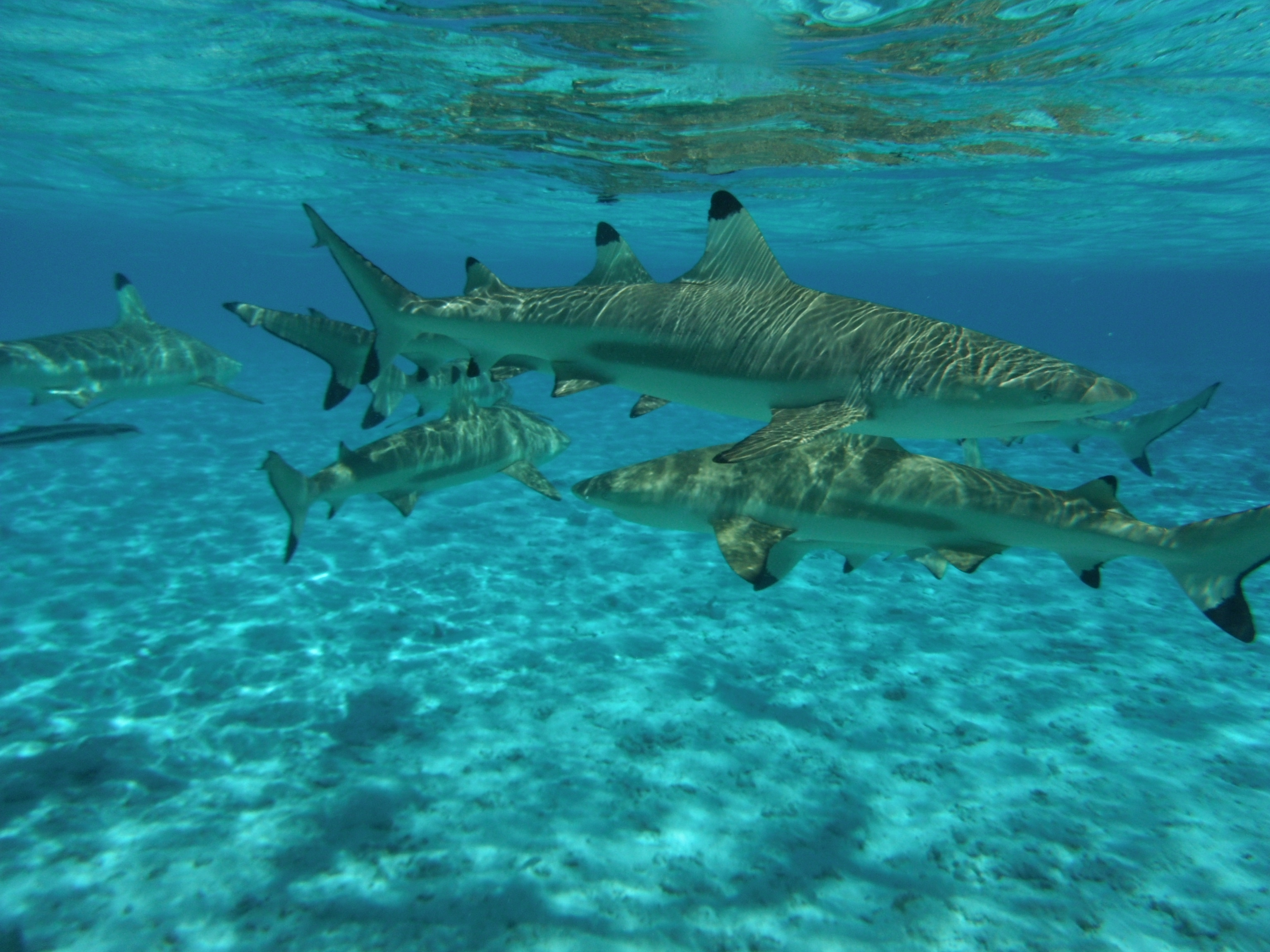 Blacktip reef shark in Bora Bora